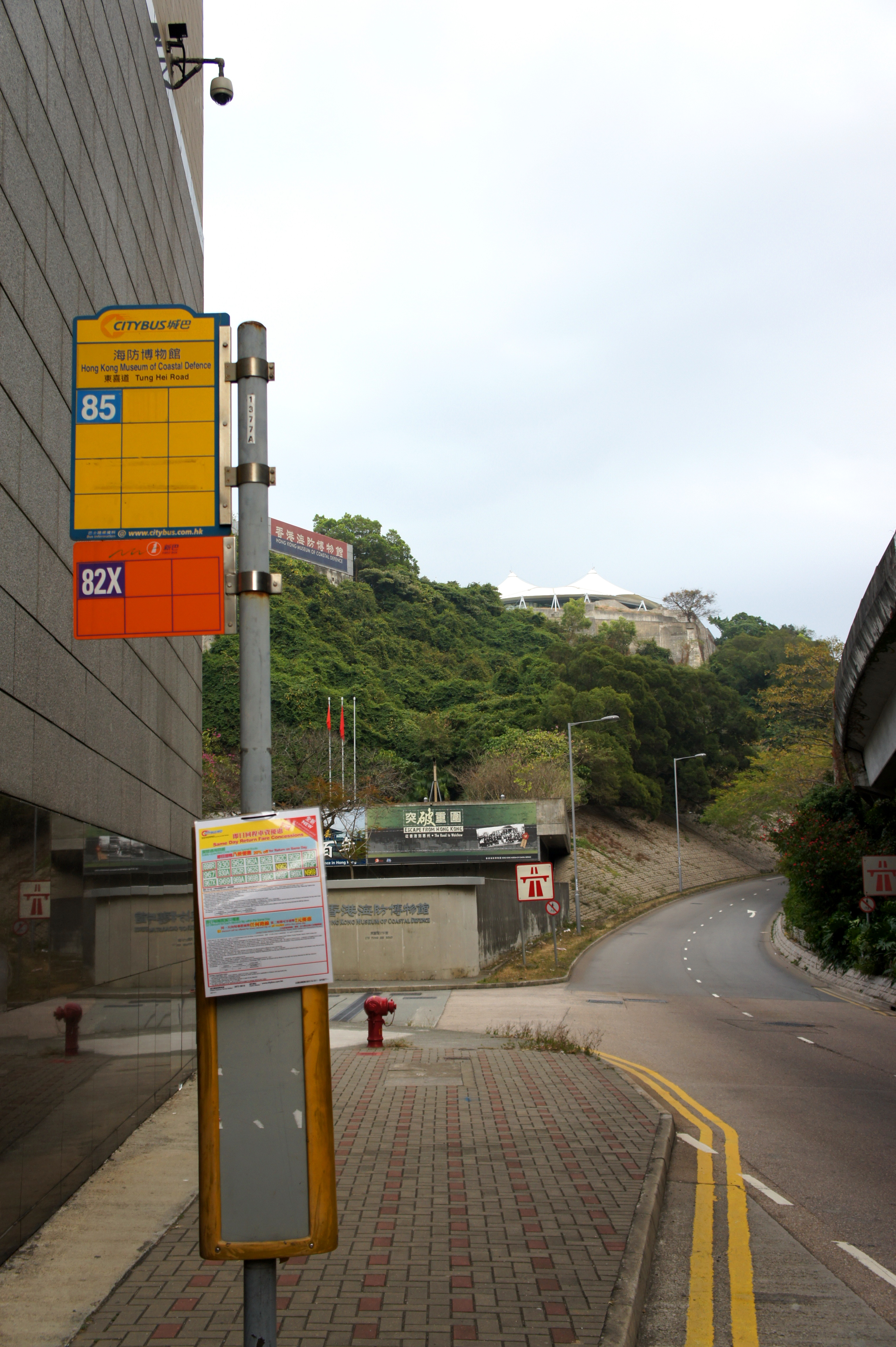 Citybus Route 85 bus stop at Tung Hei Road near Hong Kong Museum of Coastal Defence.